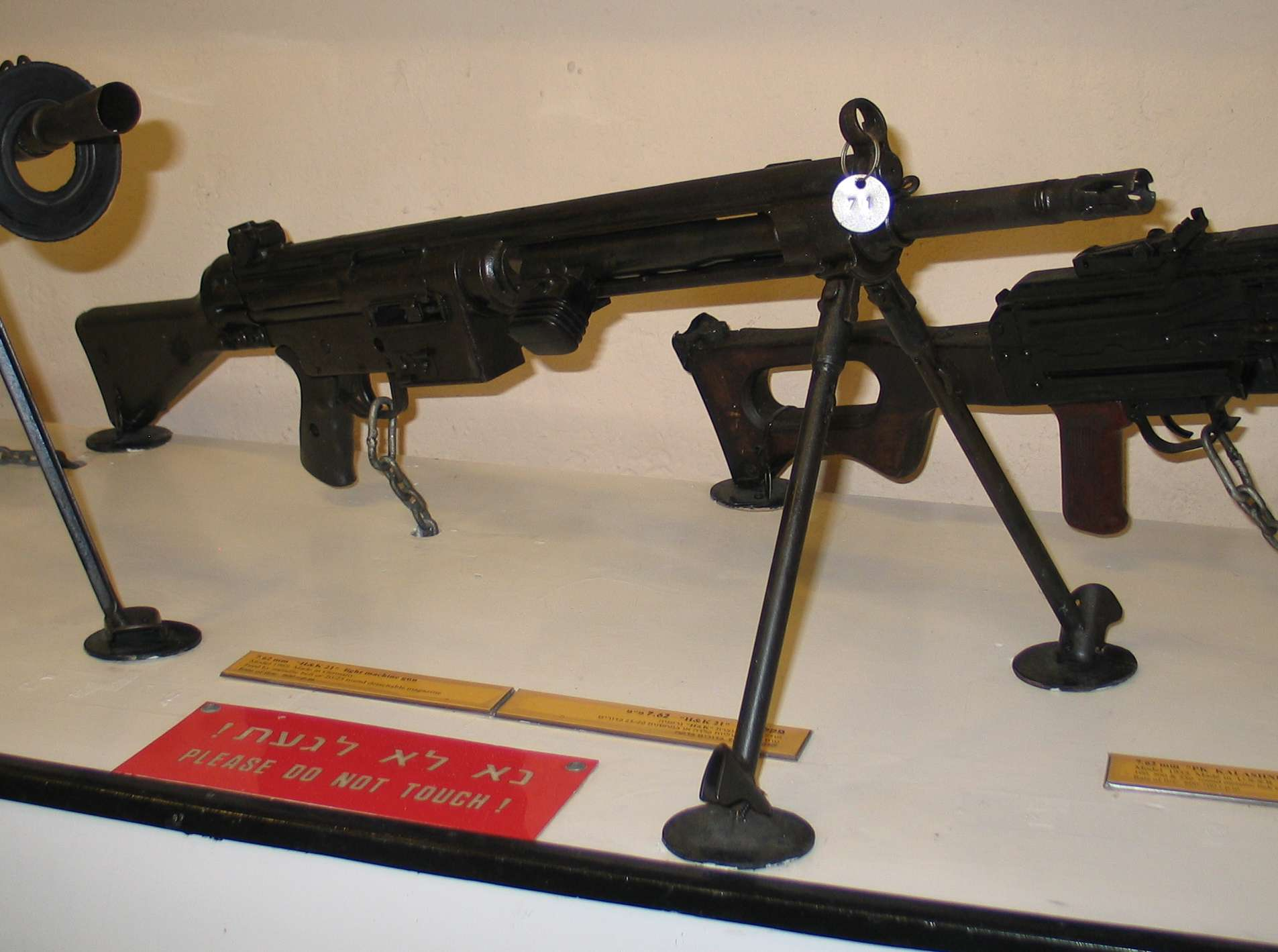 HK 21 in Batey ha-Osef museum, Tel Aviv, Israel.